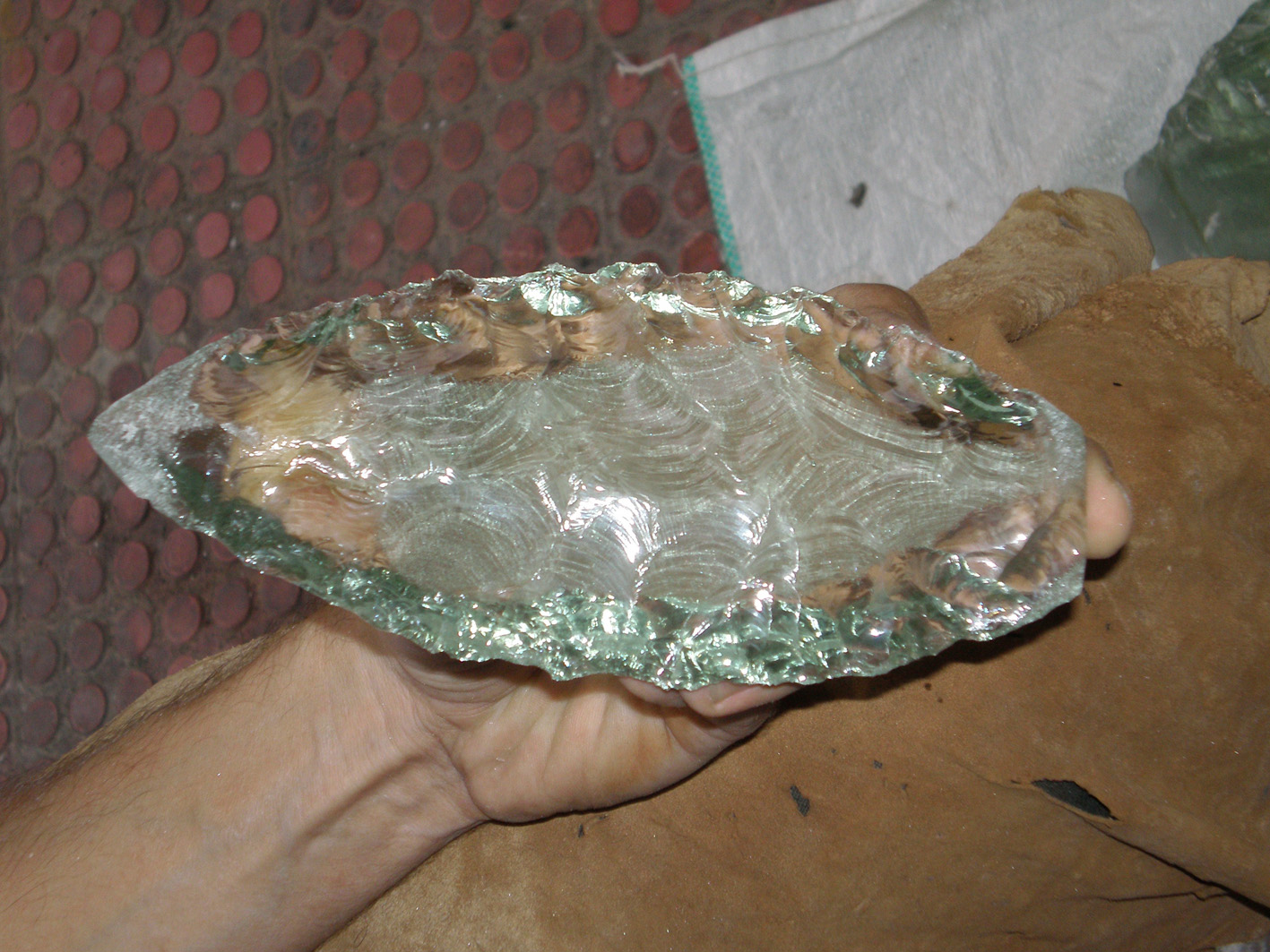 A.Miserez, private photo collection